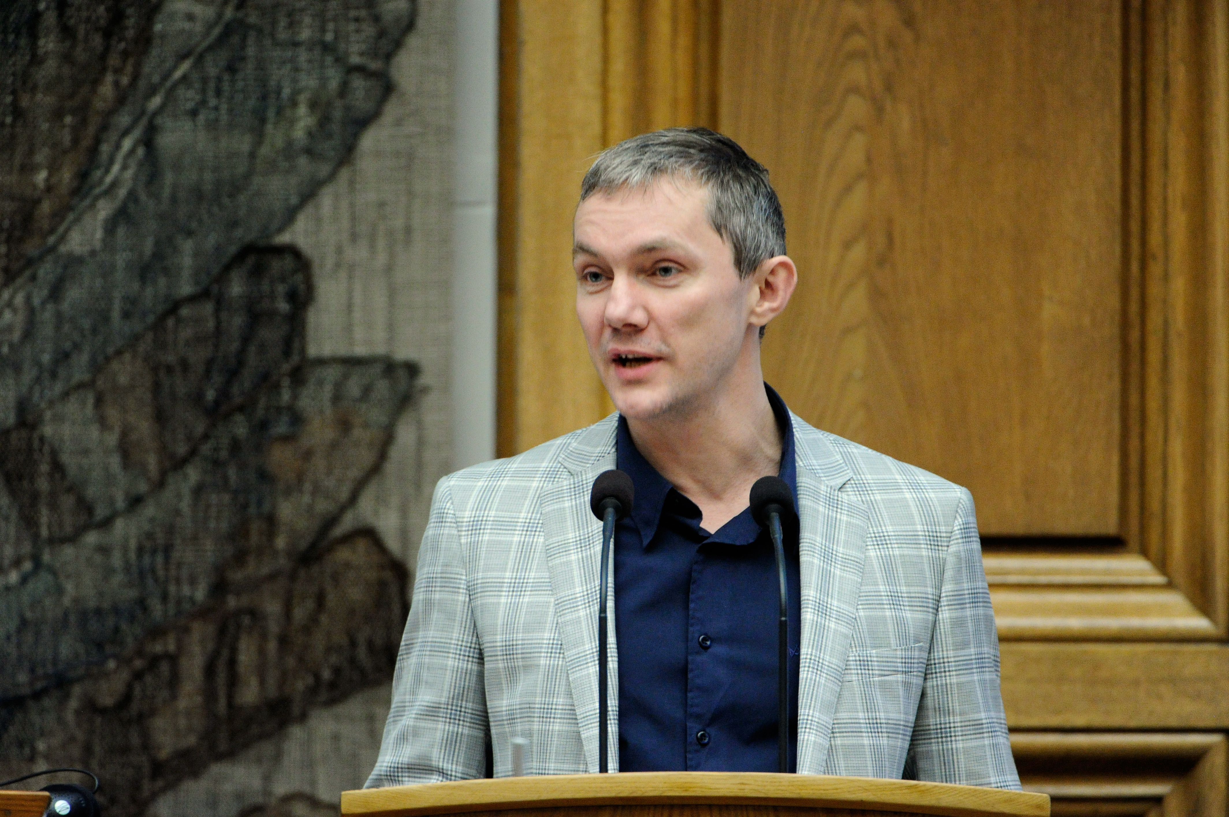 Sjúrður Skaale (Jvfl.) Island, Nordiska rådets session 2011 Keywords: Sjúrður Skaale (Jvfl.)